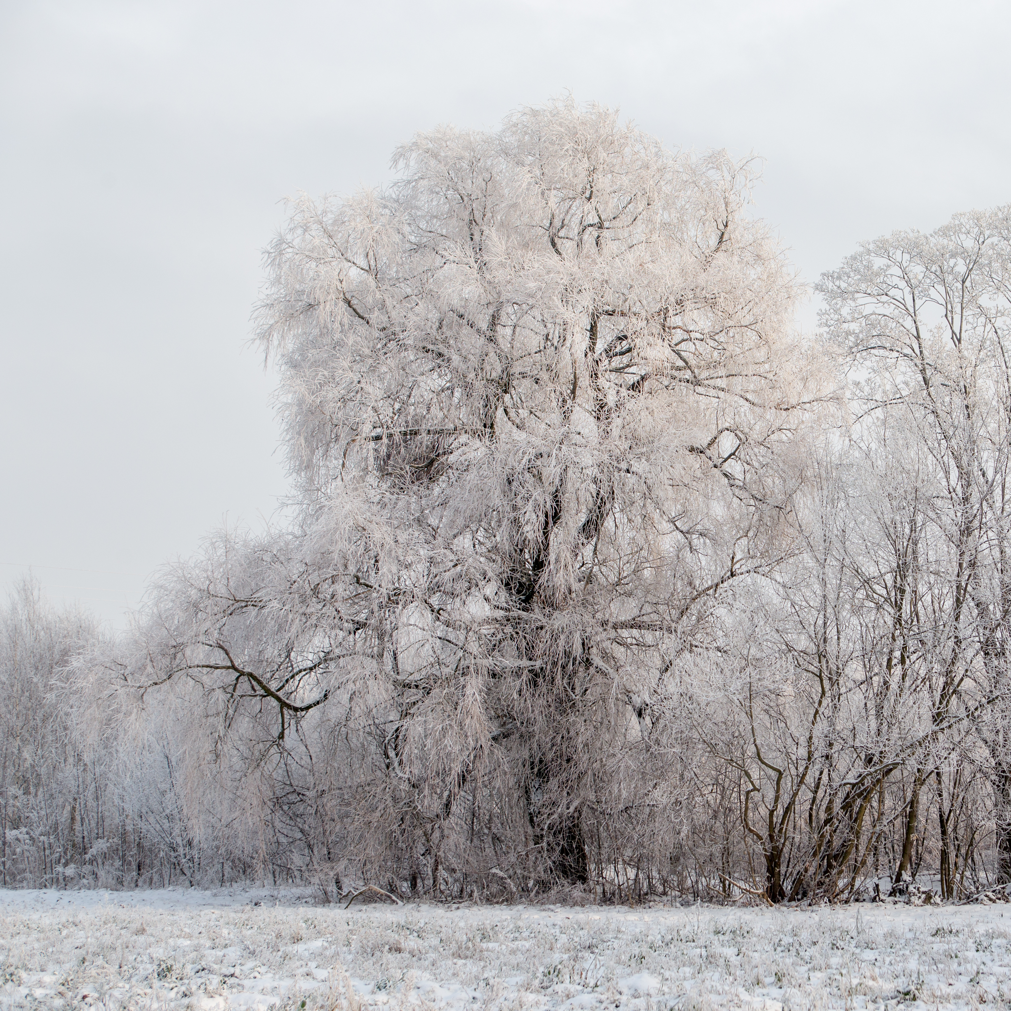 The crack willow, Lodz(Poland)